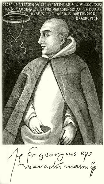 Cardinal George Martinuzzi (György Fráter) (1482–1551), Archbishop of Esztergom, chancellor of Transylvania.